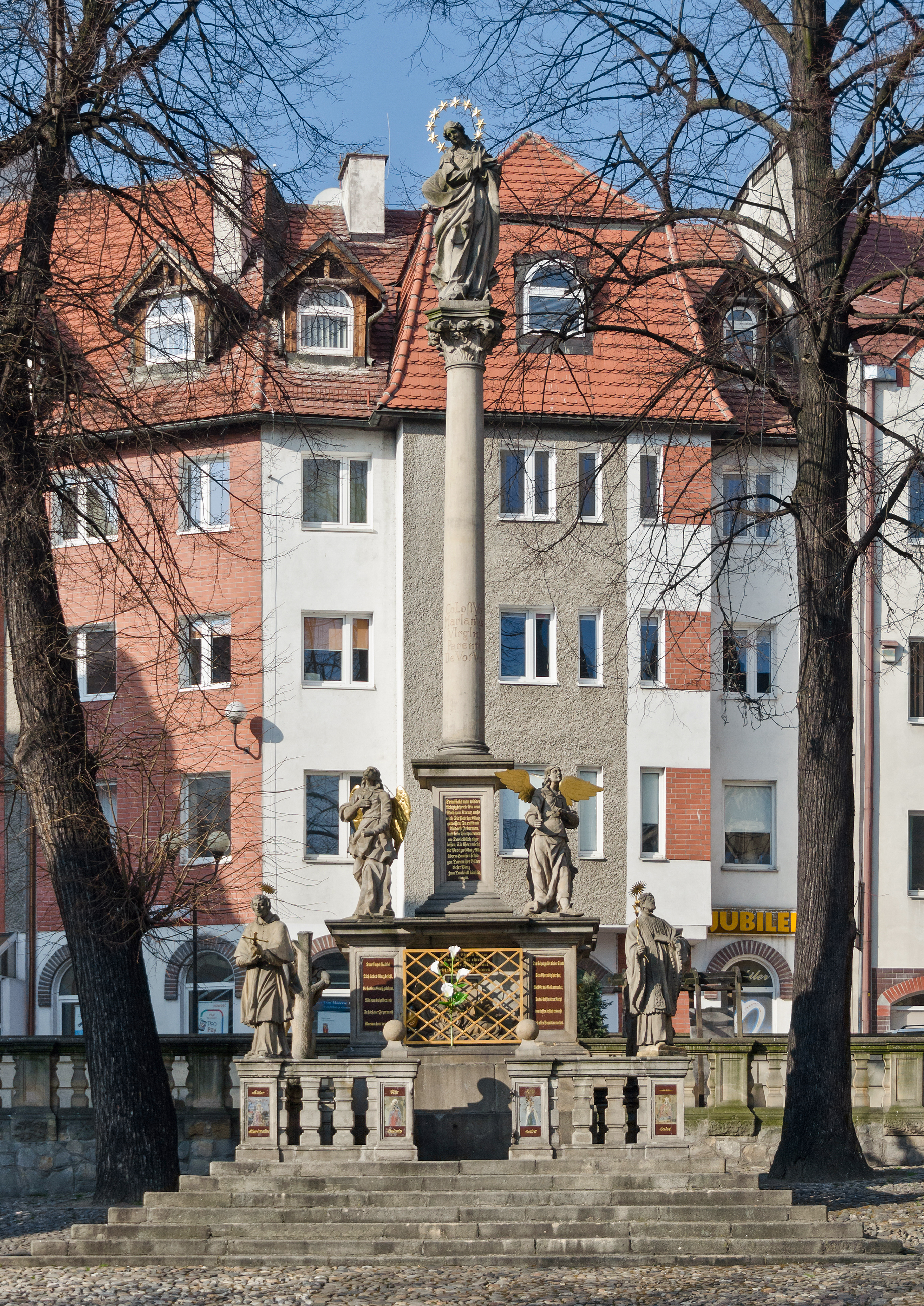 Marian Column in Kłodzko